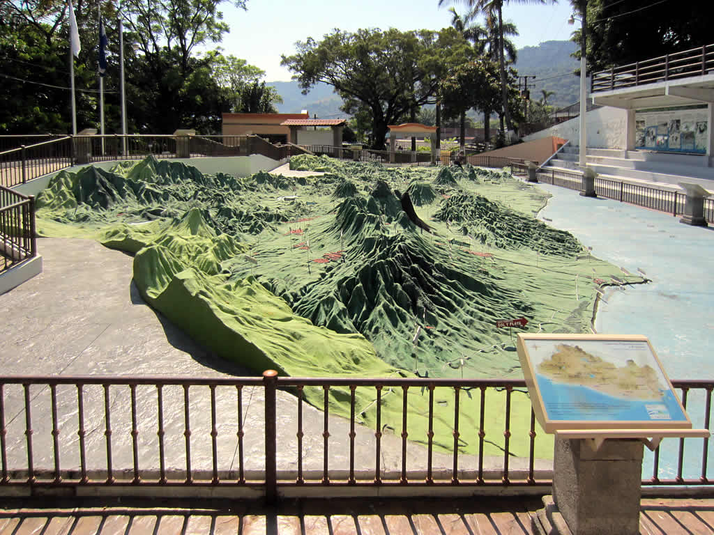 A huge relief model of El Salvador stands in front of the Military Museum in San Salvador.